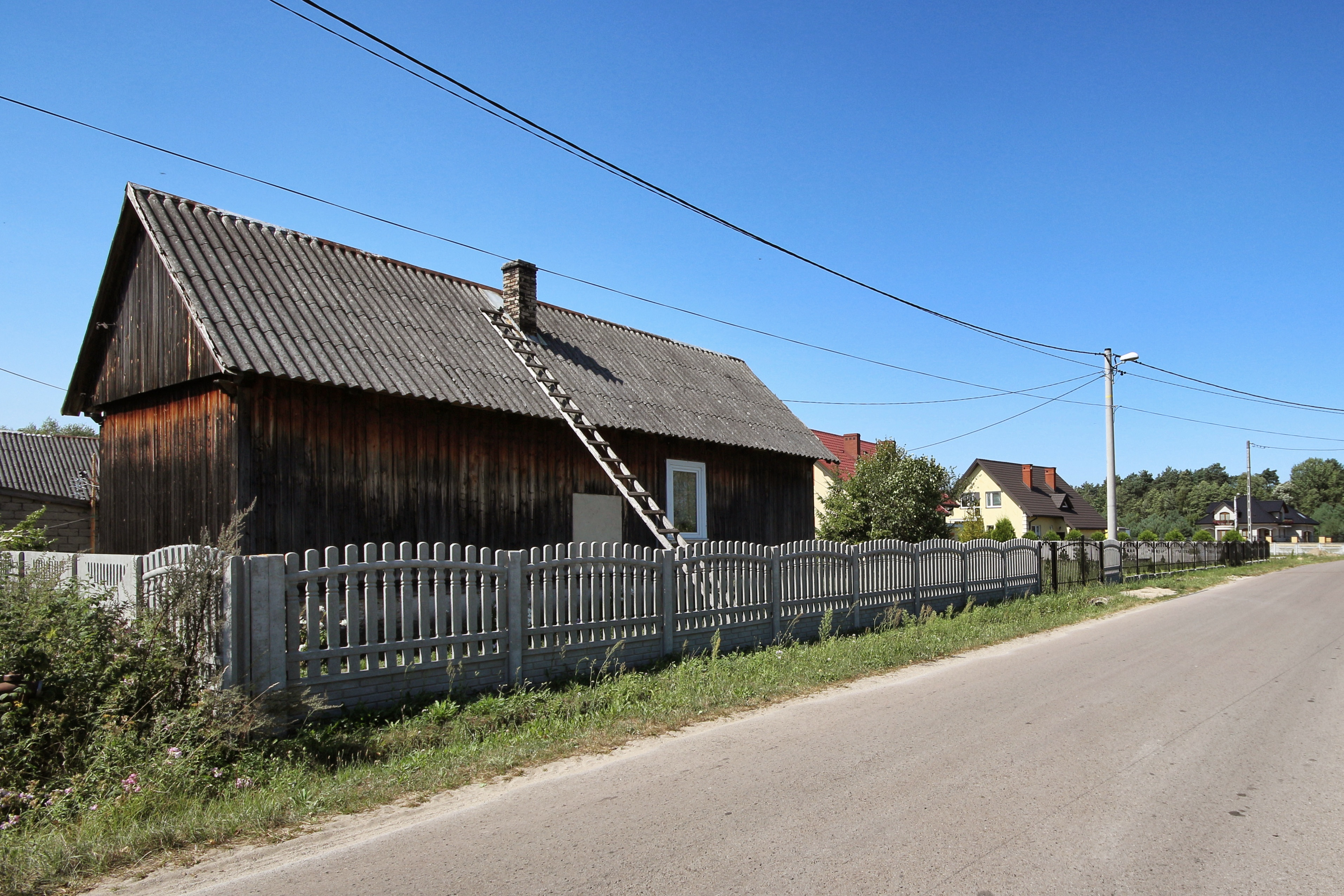 House in Kranów.